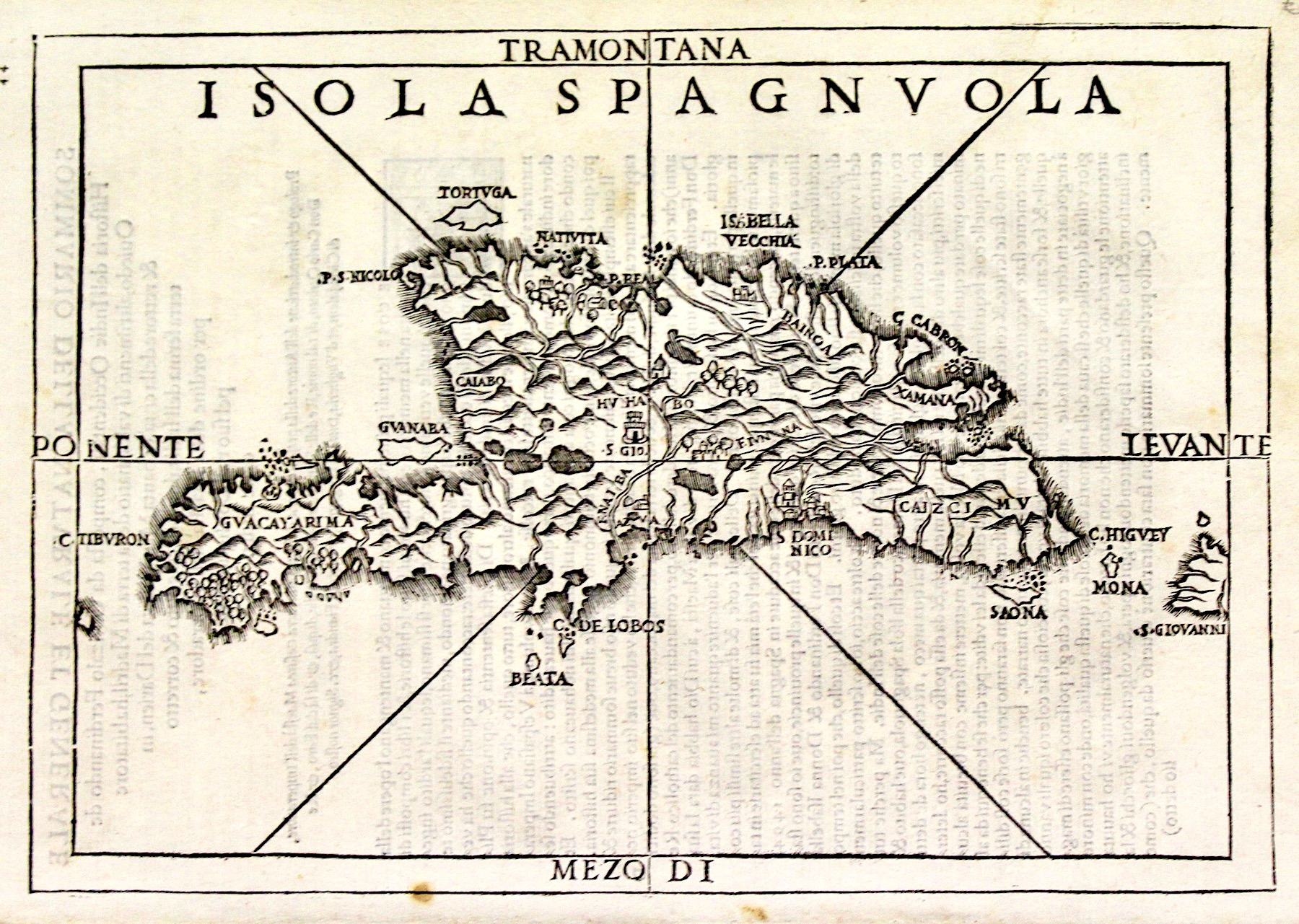 GASTALDI's map of Hispaniola. Published in third volume of Giovanni Battista Ramusio's “Delle Navigationi et Viaggi”. Woodcut, mm 190x272.